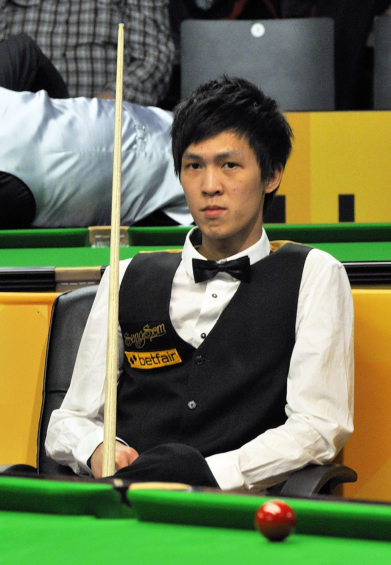 Picture taken in Berlin during the Snooker German Masters in 2013. Thepchaiya Un-Nooh.